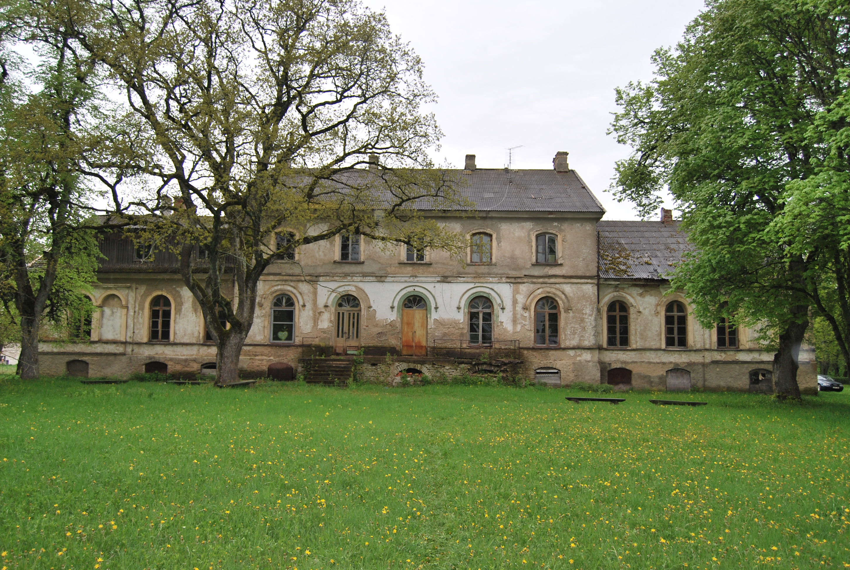 Vanamõisa manor, located in Lääne-Viru district, Estonia.